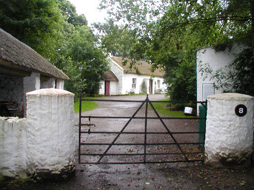 Ulster American Folk Park - Mellon house. The entrance to this exhibit as be seen from the public road but you have to enter the park to see the rest of which there are approximately 30.